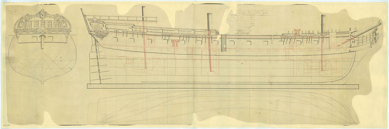 Scale: 1:48. Plan showing the body plan with stern board outline and decoration detail with name on the counter, sheer lines with inboard profile and figurehead, and longitudinal half-breadth for Venus (1783), a 46-gun Russian Frigate, as taken off at Sheerness Dockyard. The lines were taken off while the ship was in British waters during 1796. Signed by Thomas Mitchell [Master Shipwright, Sheerness Dockyard, 1795-1801].